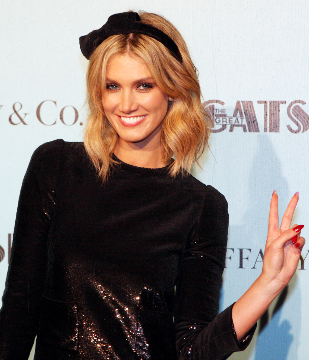 Delta Goodrem at the The Great Gatsby Premiere Sydney Australia 2013.